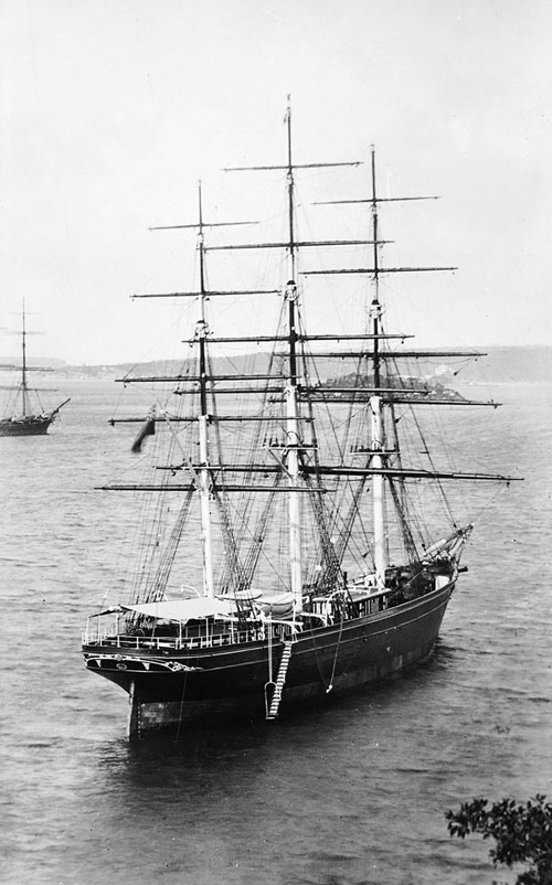 The 'Cutty Sark' waiting in Sydney Harbour for the new season's wool. Reproduction ID: P02414 Maker: Unknown